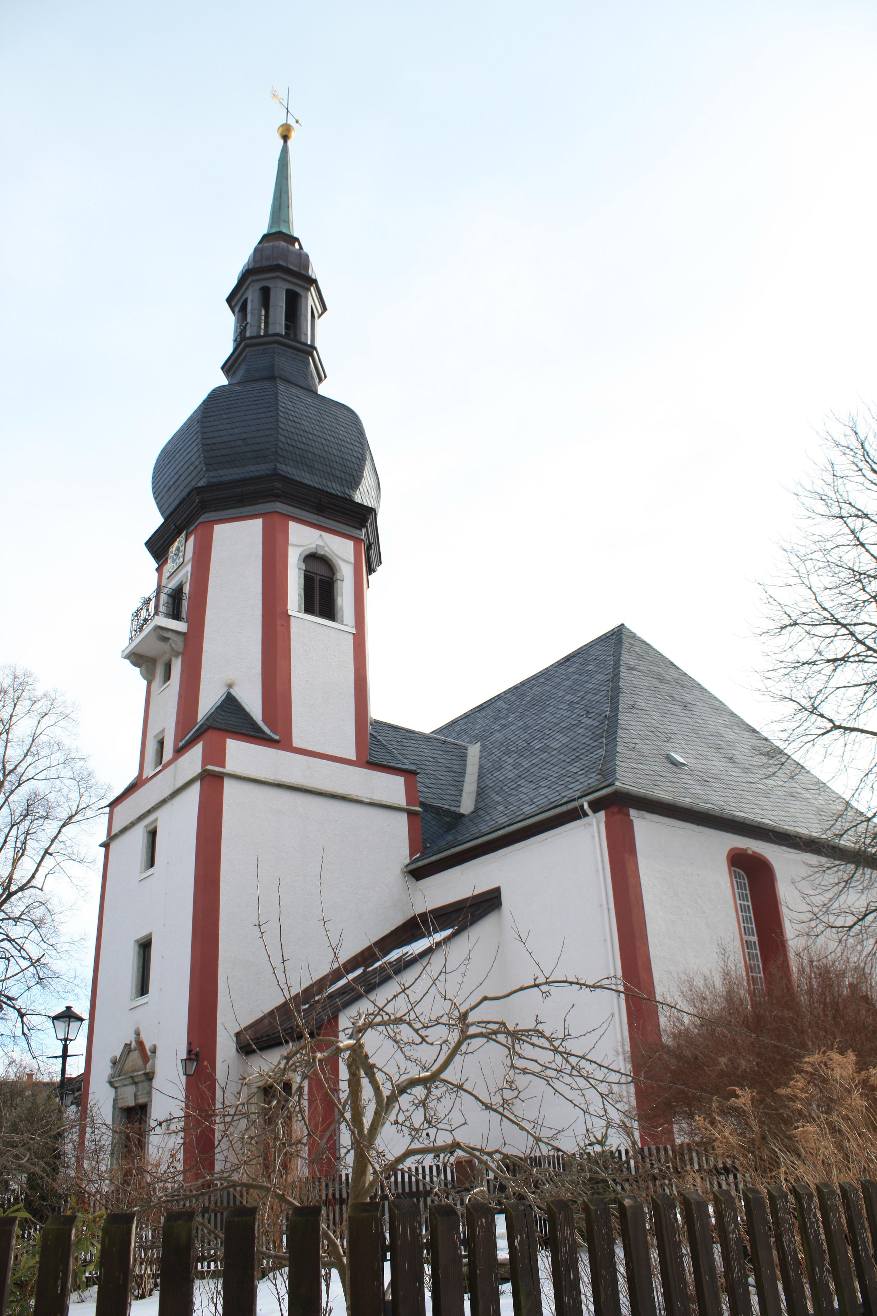 Trinitatiskirche church Zwönitz